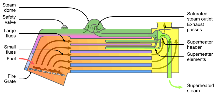 Same file as before cropped top and bottom to allow file to be better integrated into text.